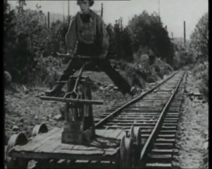 Scene from the movie The General. 1926.